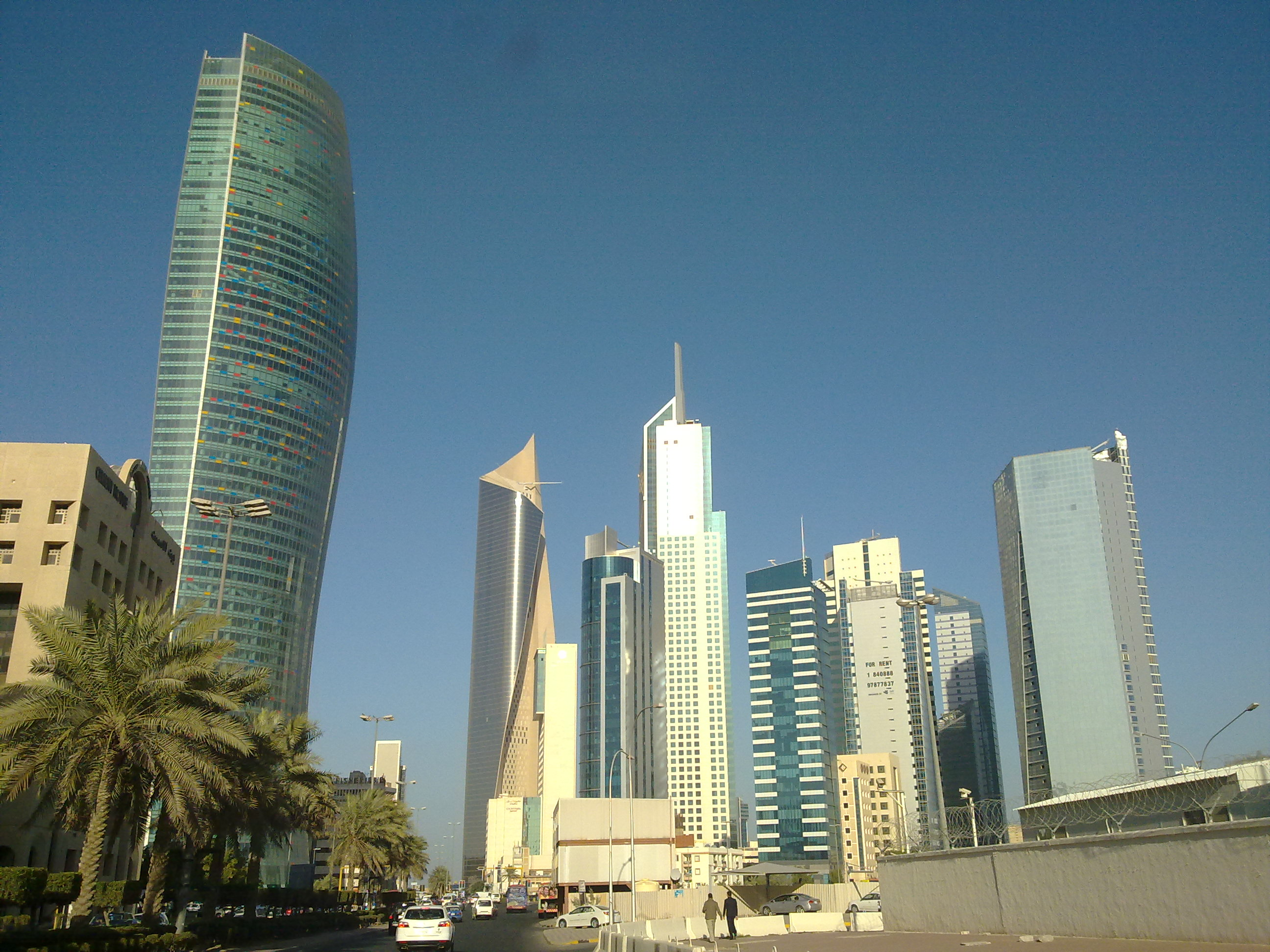 This media file is uploaded with Malayalam loves Wikimedia event - 3. kuwait